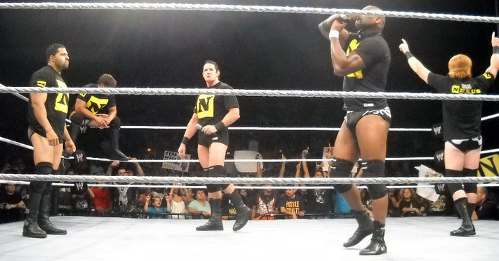 The Nexus (from left to right): Davud Otunga, Justin Gabriel, Wade Barrett, Michael Tarver, and Heath Slater.